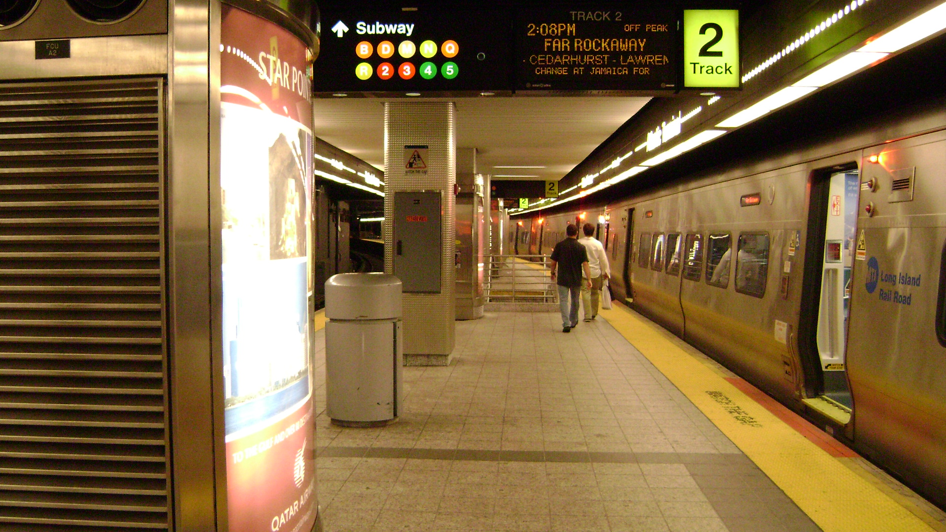 The Atlantic Terminal Long Island Rail Road station, post renovations, in it's 2007 form.